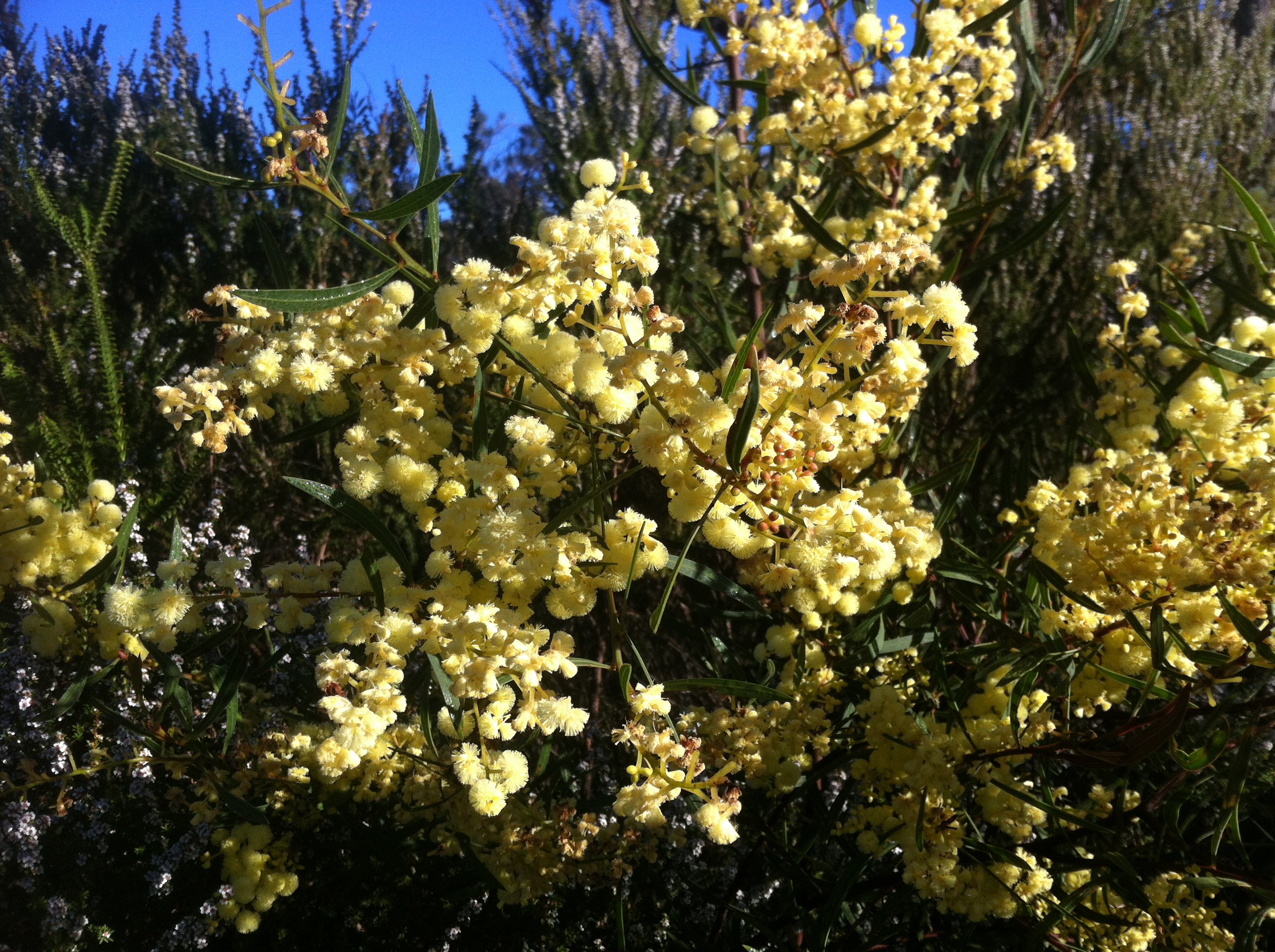 Acacia cochlearis blossom